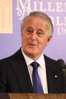 Brian Mulroney. The Miller Center Ronald Reagan Centennial Conference, "Reagan in a World Transformed," was held February 10-11, 2011, at the National Press Club in Washington D.C.